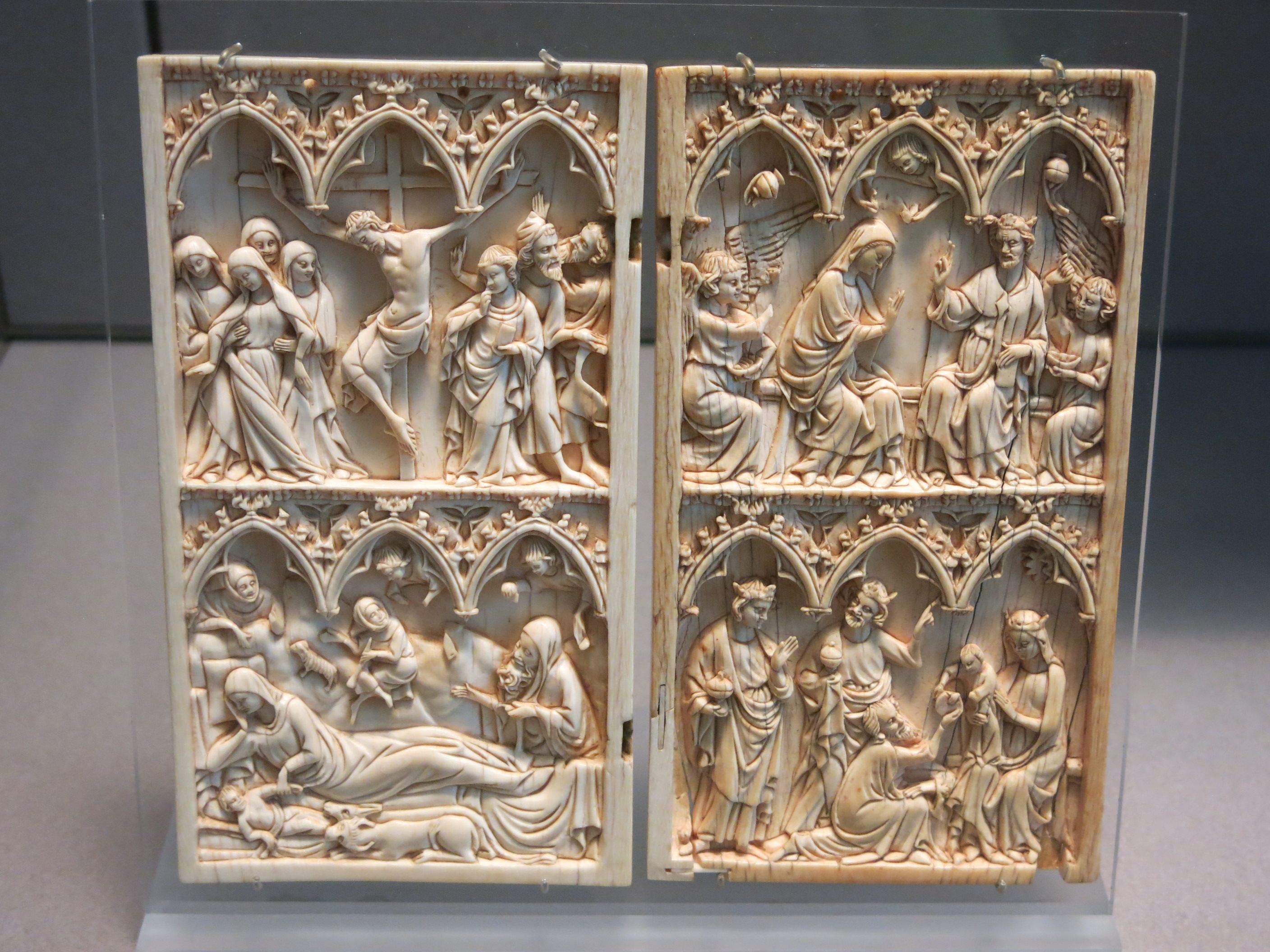 Diptych with scenes of life of the Virgin. From bottom to top and from left to right : Nativity, Adoration of the Magi, Crucifixion, Coronation of the Virgin. Paris. 2nd quarter of 14th century. Elephant Ivory. Louvre museum (Paris, France).